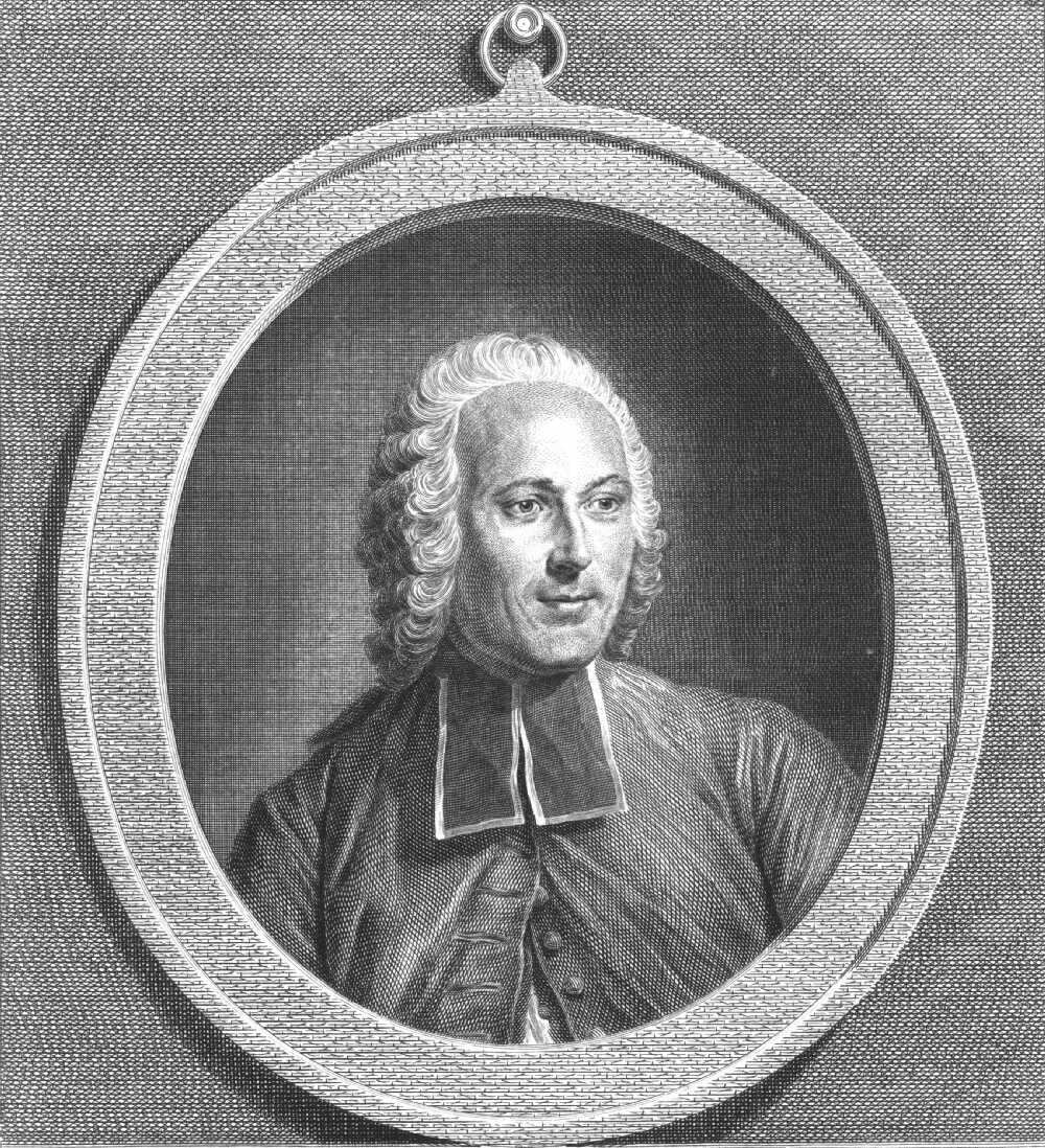 Jean-Antoine Nollet, from [1]